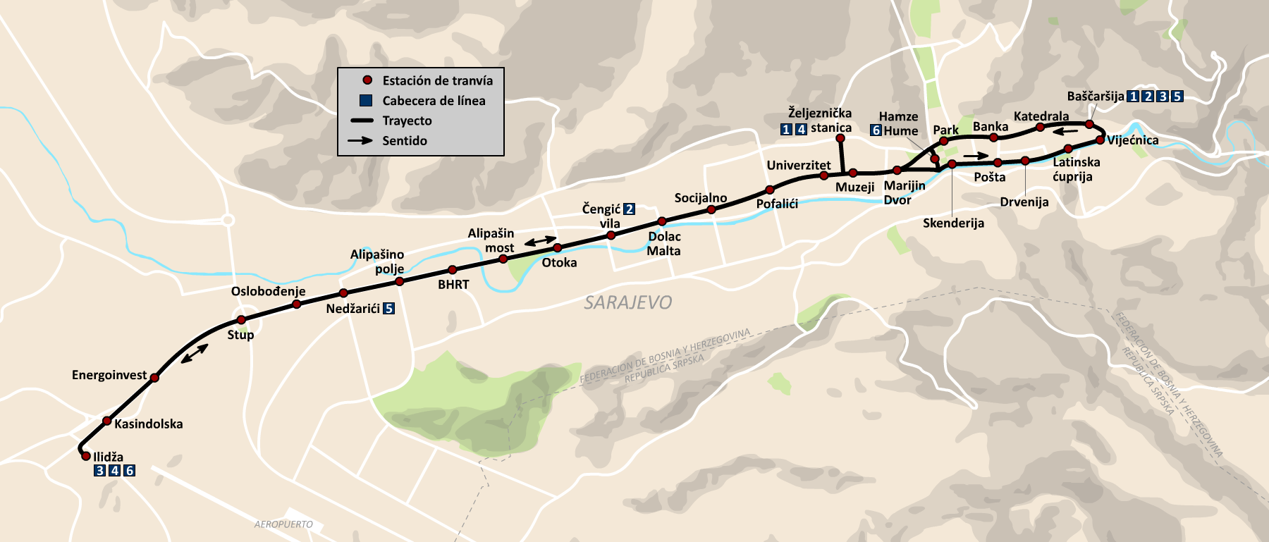 Map of the Sarajevo tram system, Bosnia and Herzegovina